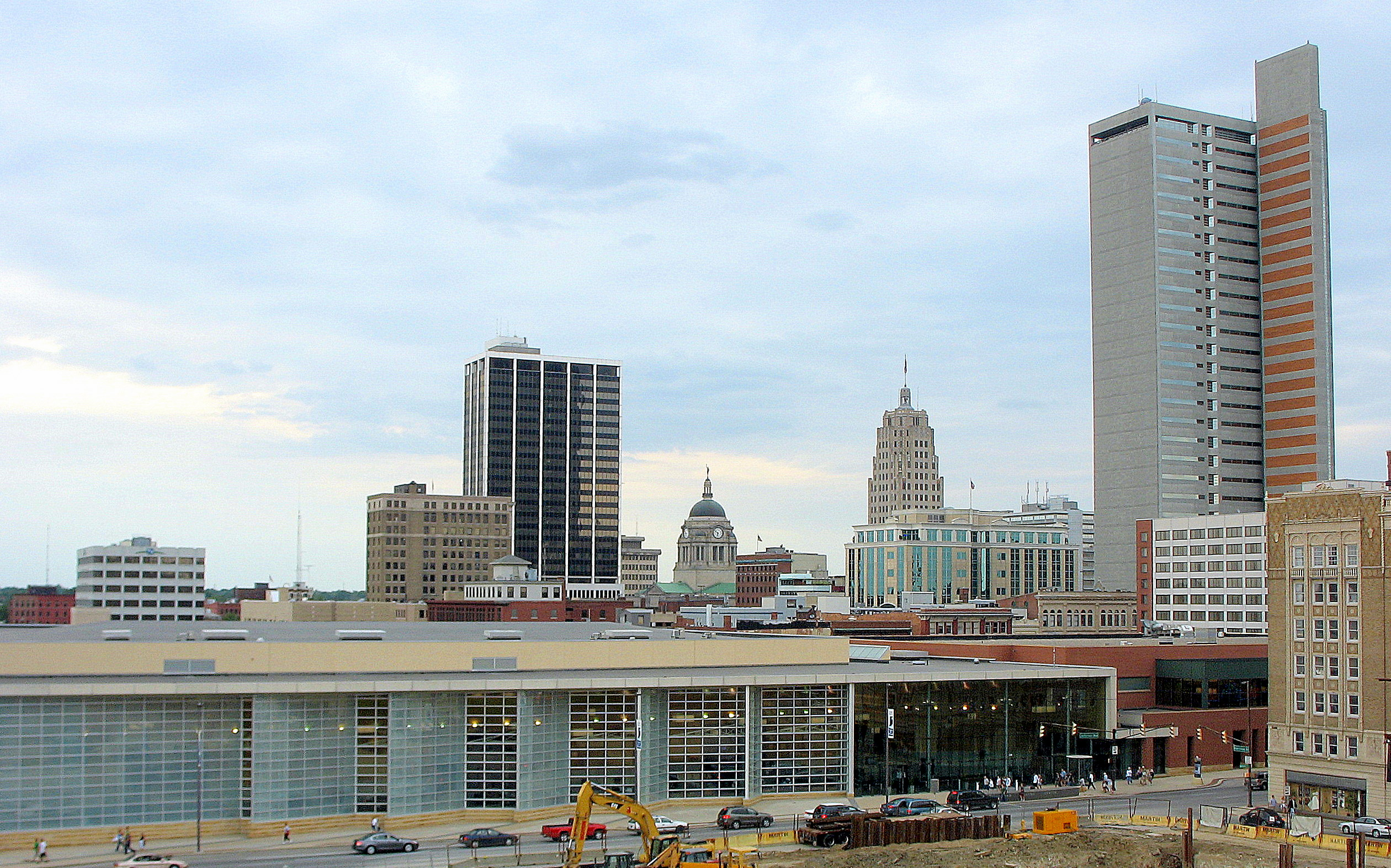 Looking to the northeast at the Fort Wayne, Indiana skyline from atop the Harrison Square Parking Deck.